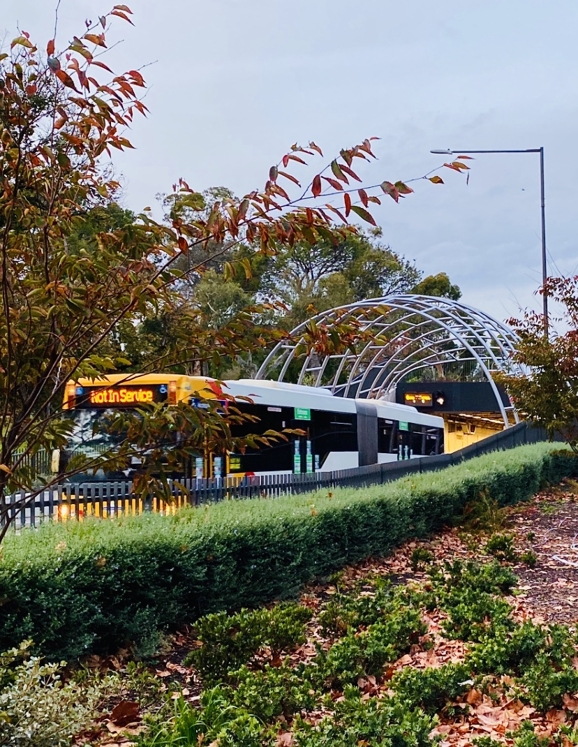 The O-Bahn Busway is a guided busway that is part of the bus rapid transit system servicing the northeastern suburbs of Adelaide, South Australia, designed to avoid traffic congestion via tunnels seperate to the road network.